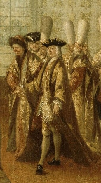 Charles_de_Ferriol_1699.